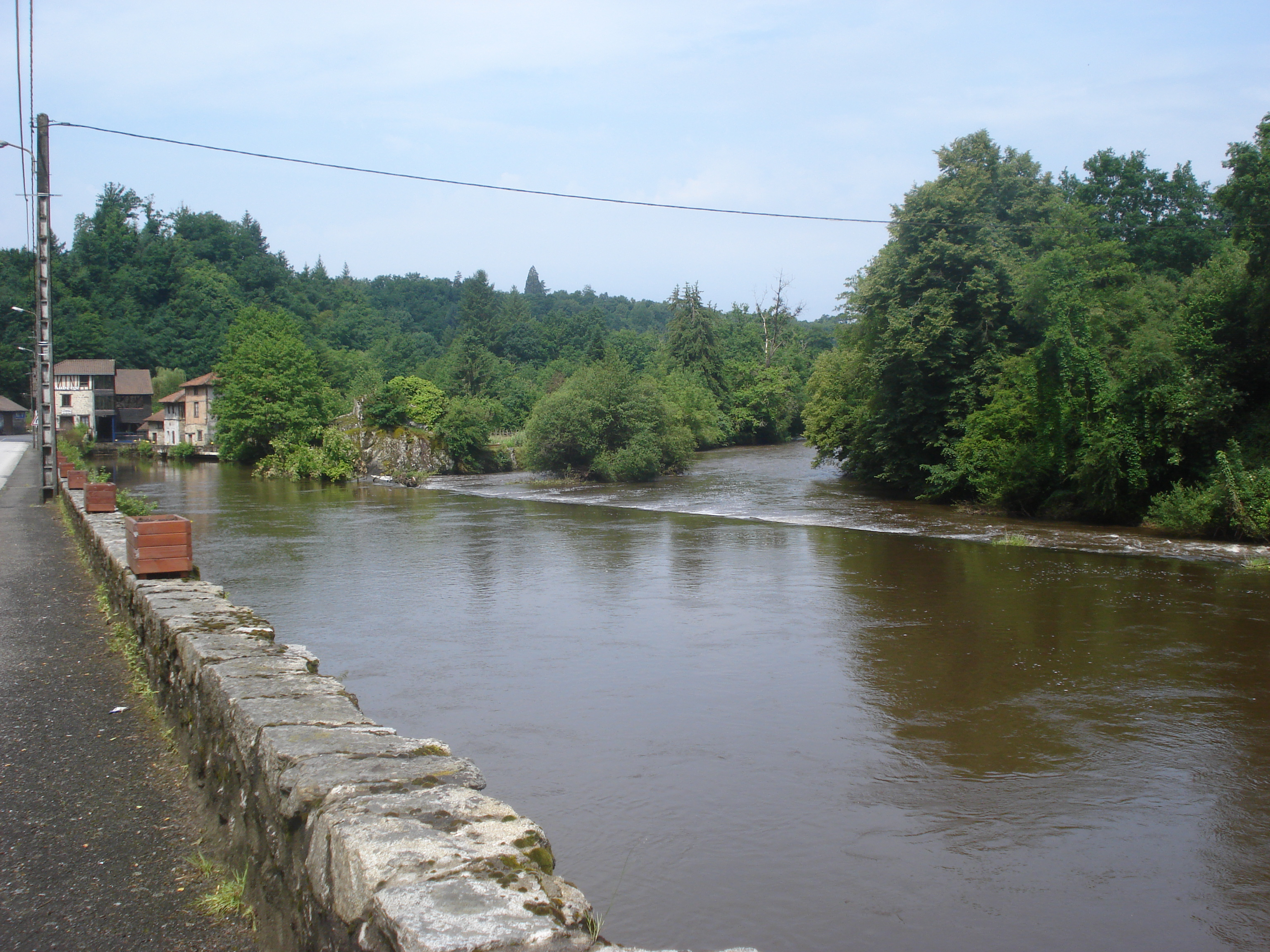 Vienne river and watermill Pont-de-Noblat (Haute-Vienne, Fr).